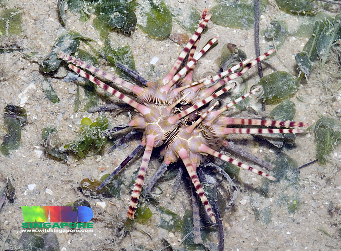 Thorny sea urchin (Prionocidaris sp.). More about this sea urchin on the wildfacts sheets on wildsingapore. For a high res version of this photo, please review the details on about using my photos. When making the request, please include this reference: 101011chgd2191